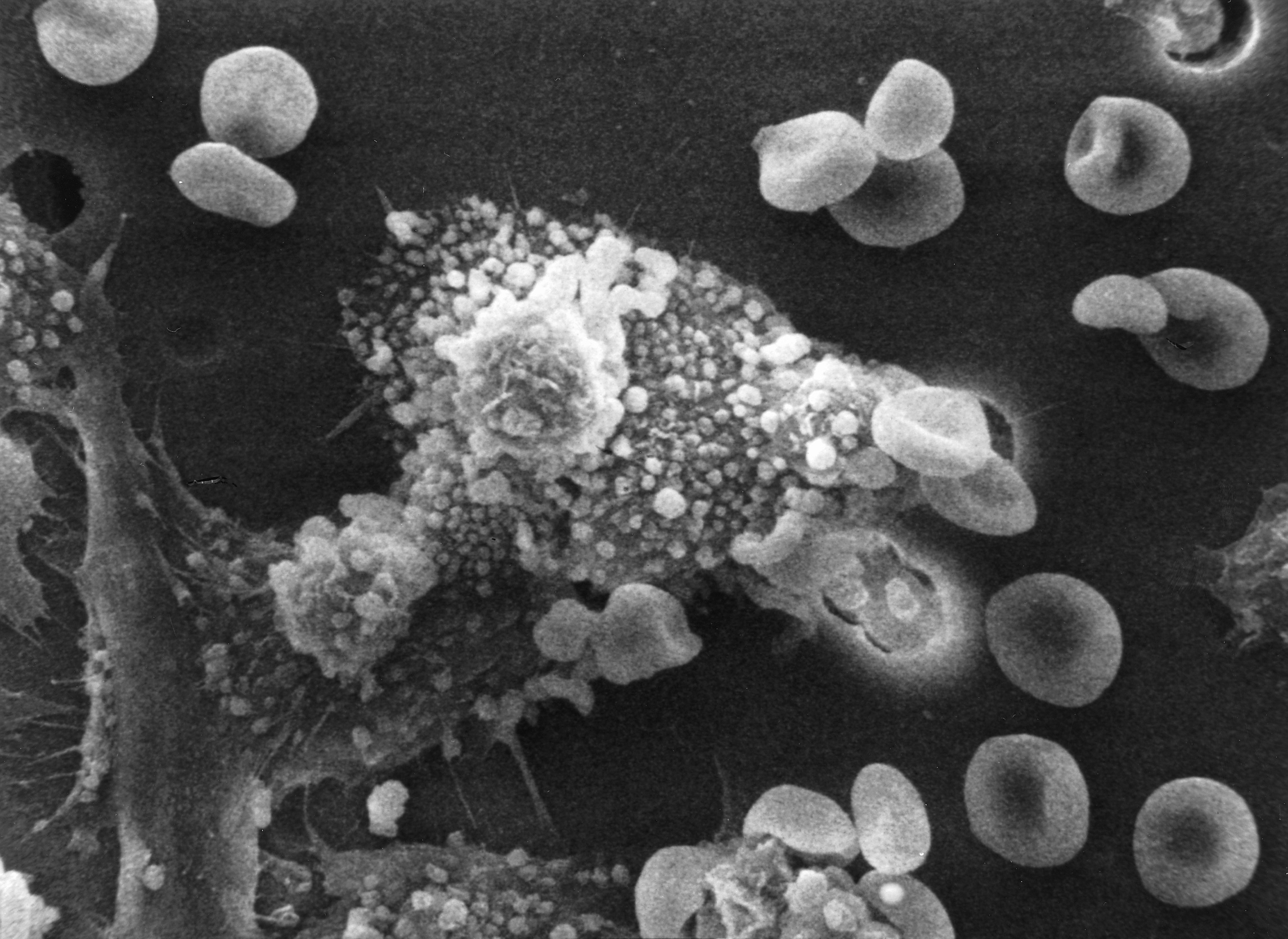 [Part of a] six-step sequence of the death of a cancer cell. A cancer cell has migrated through the holes of a matrix coated membrane from the top to the bottom, simulating natural migration of a invading cancer cell between, and sometimes through, the vascular endothelium. Notice the spikes or pseudopodia that are characteristic of an invading cancer cell (1). A buffy coat containing red blood cells, lymphocytes and macrophages is added to the bottom of the membrane. A group of macrophages identify the cancer cell as foreign matter and start to stick to the cancer cell, which still has its spikes (2). Shown: Macrophages begin to fuse with, and inject its toxins into, the cancer cell. The cell starts rounding up and loses its spikes (3). As the macrophage cell becomes smooth (4). The cancer cell appears lumpy in the last stage before it dies. These lumps are actually the macrophages fused within the cancer cell (5). The cancer cell then loses its morphology, shrinks up and dies (6). Photo magnification: 3: x8,000 Type: B & W print